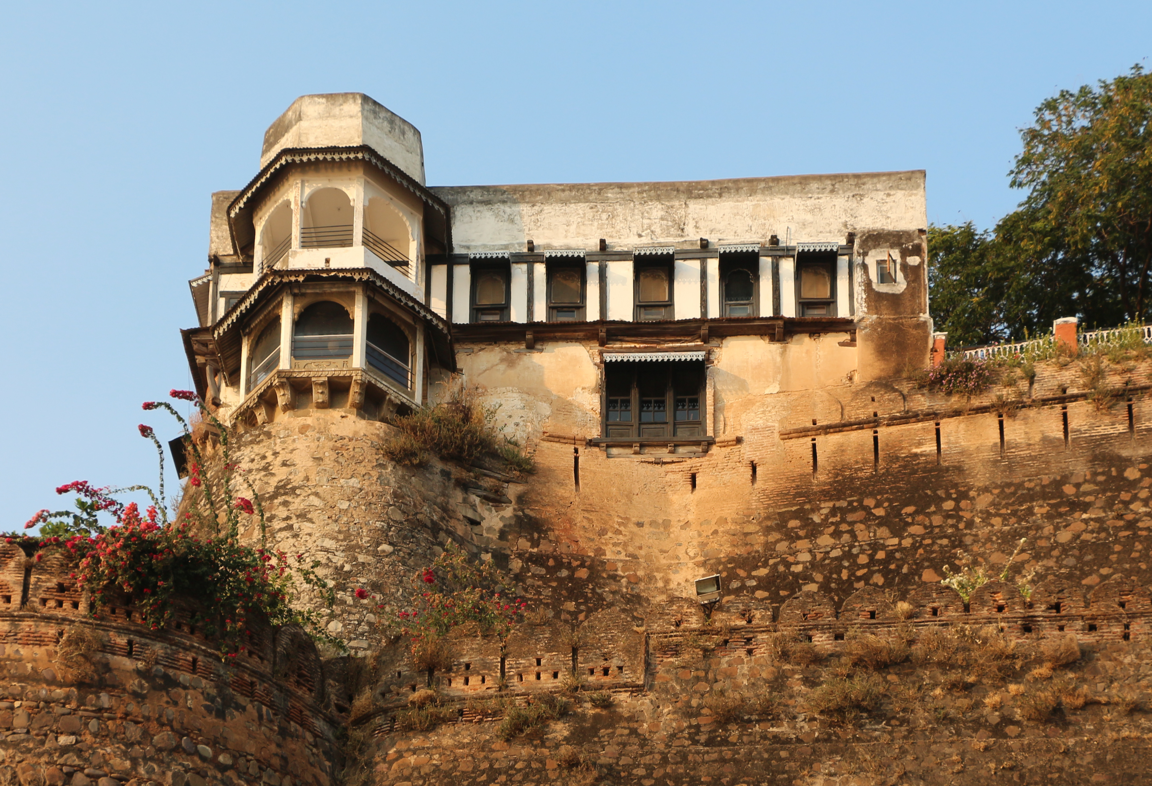 Royal Palace of Maheshwar, Madhya Pradesh, India.